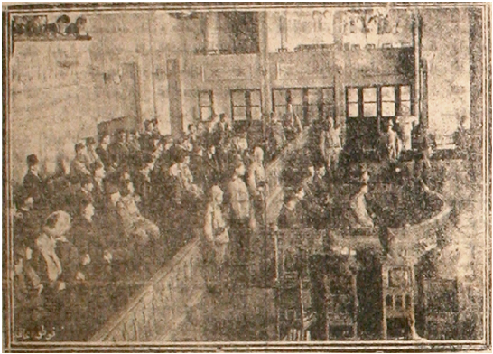 CUP's leaders, Enver, Djemal, and Talaat, were involved in ordering the deportations and massacres of 1 and 1.5 million Armenians in 1915–1916 in what became known as the Armenian Genocide. After World War I and the signing of the armistice of Mudros, the leadership of the Committee of Union and Progress and selected former officials were court-martialled with/including the charges of subversion of the constitution, wartime profiteering, and the massacres of both Armenians and Greeks. The court reached a verdict which sentenced the organizers of the massacres, Talat, Enver, Cemal and others to death.